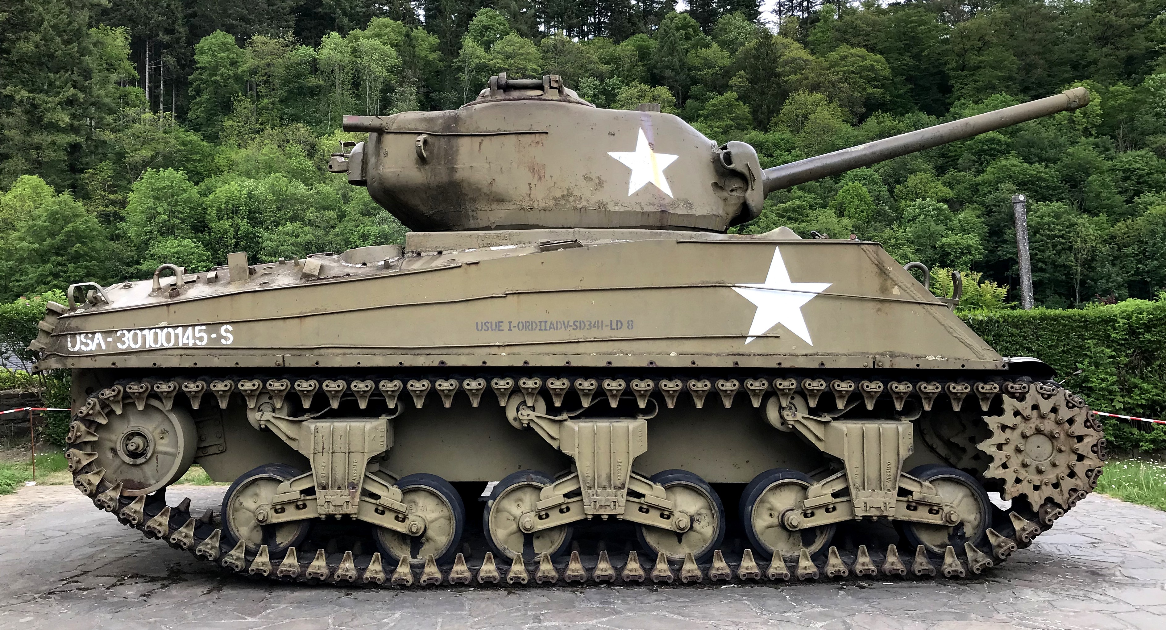 World War 2 Sherman American medium tank in front of the Clervaux Castle, Luxemburg.USA-30100145-SUSUE I-ORDIIADV-SD341-LD 8